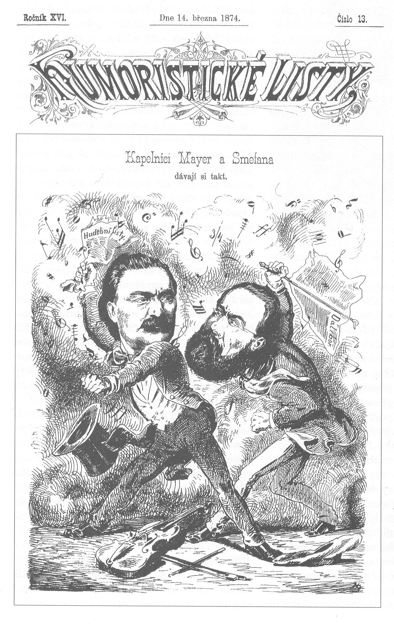 "Conductors Mayer and Smetana beating the time for each other". Front page illustration of "Humoristické listy" March 14, 1874